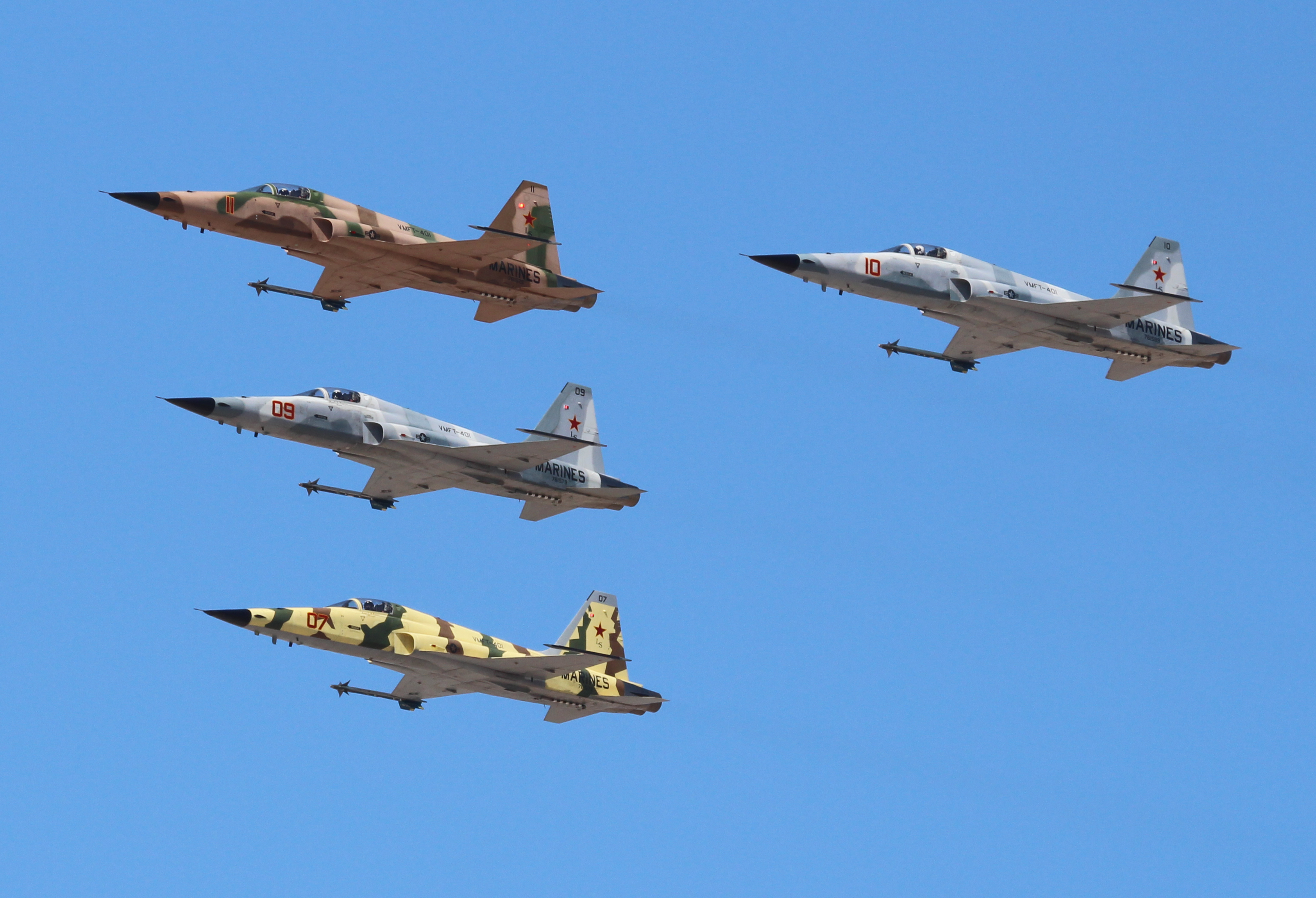 Four F-5N Tiger IIs of VMFT-401, MCAS Yuma, March 2018, showing three of the four main camouflage schemes worn by these aircraft. These represent the types of colours worn by potential adversary aircraft.